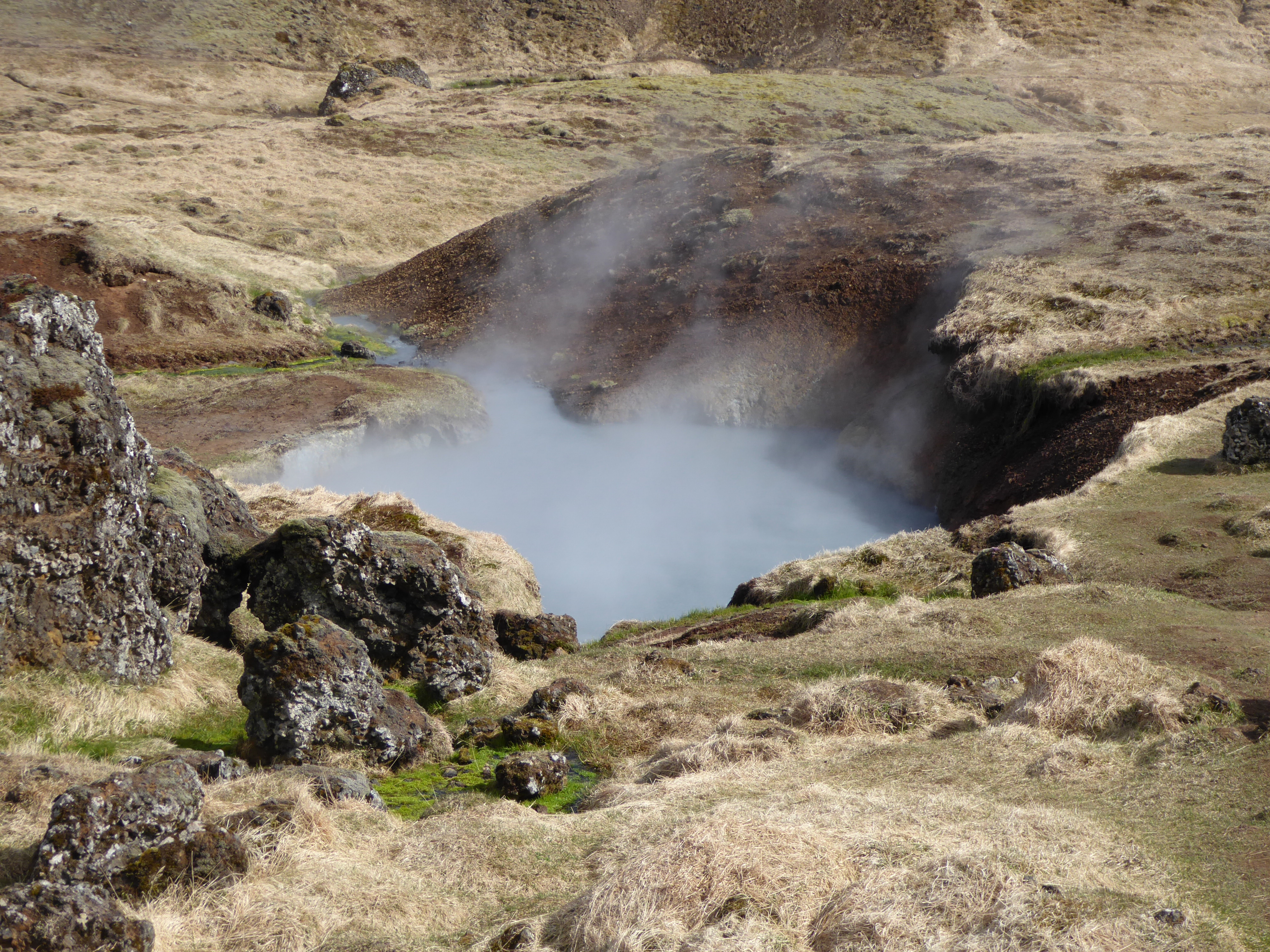 A photo of one of the springs at Hengill, Iceland